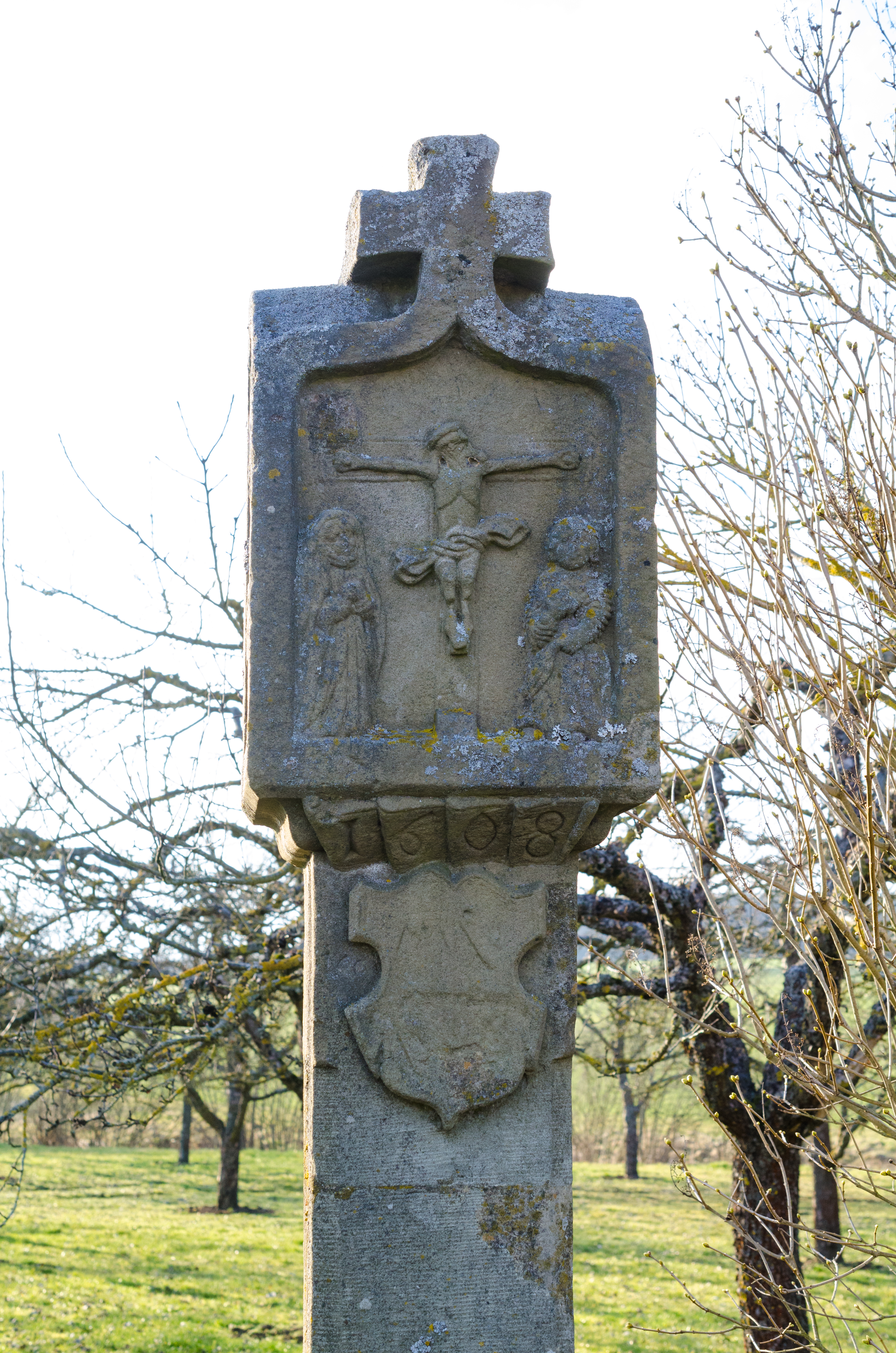 Object location50° 06′ 56.48″ N, 10° 11′ 08.27″ E